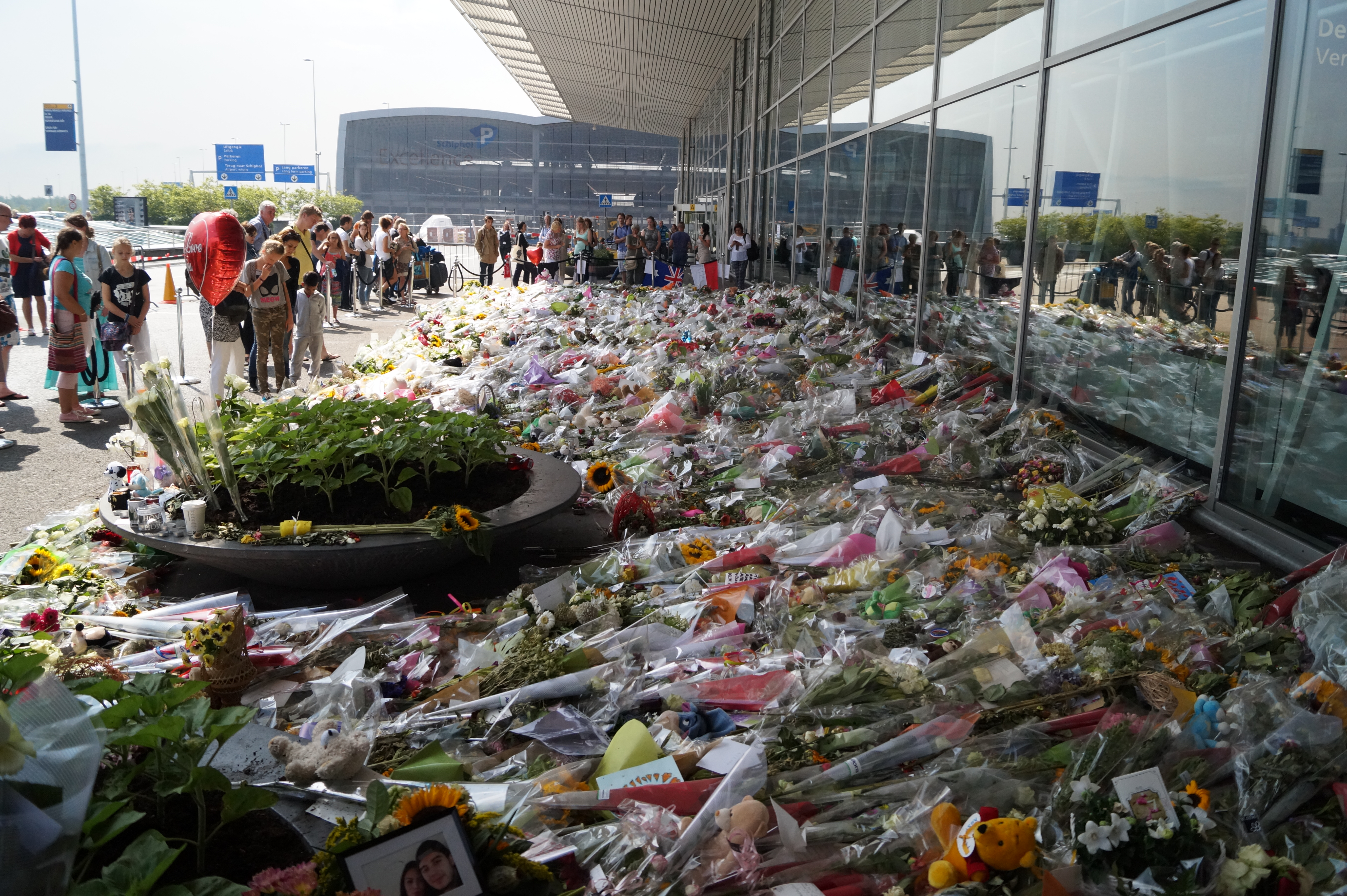 The sea of flowers at the airport for the victims of the disaster of Flight MH17.